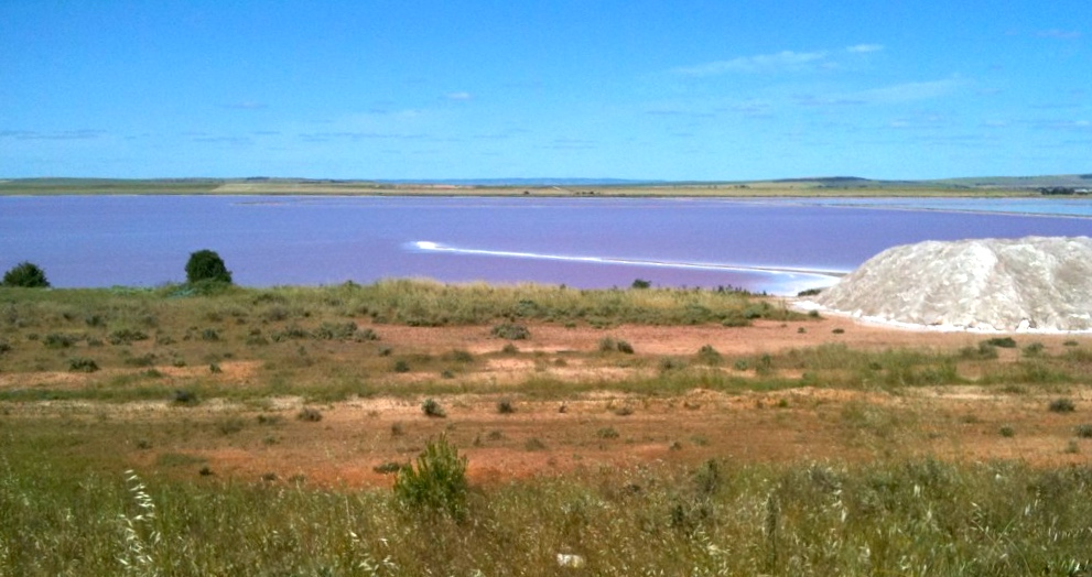 Photo of Lake Bumbunga from the Lochiel rest stop on Augusta Highway.